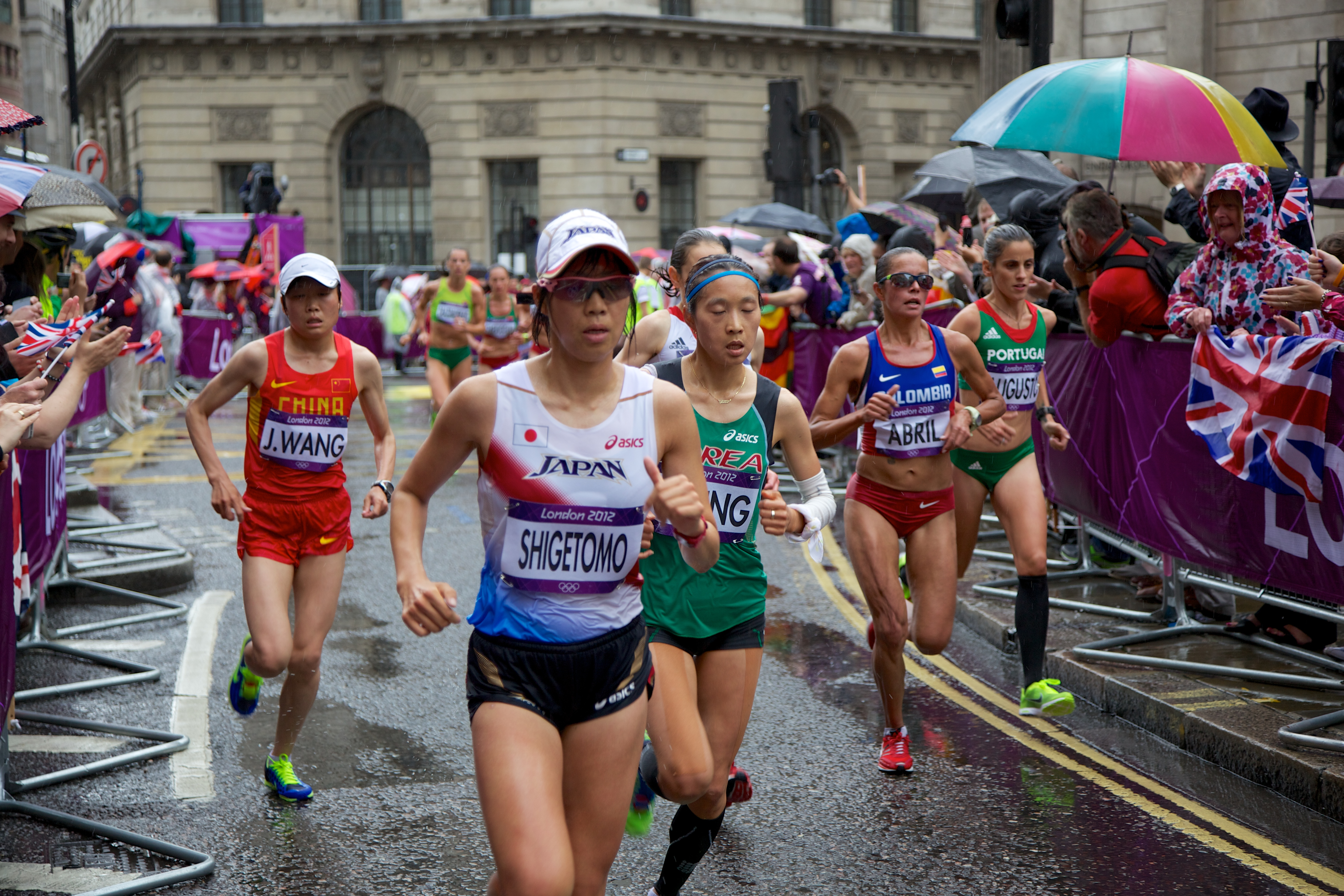 Women's Marathon at the 2012 Summer Olympics, Jiali Wang, Risa Shigetomo, Yunhee Chung, Erika Abril, Jéssica Augusto.